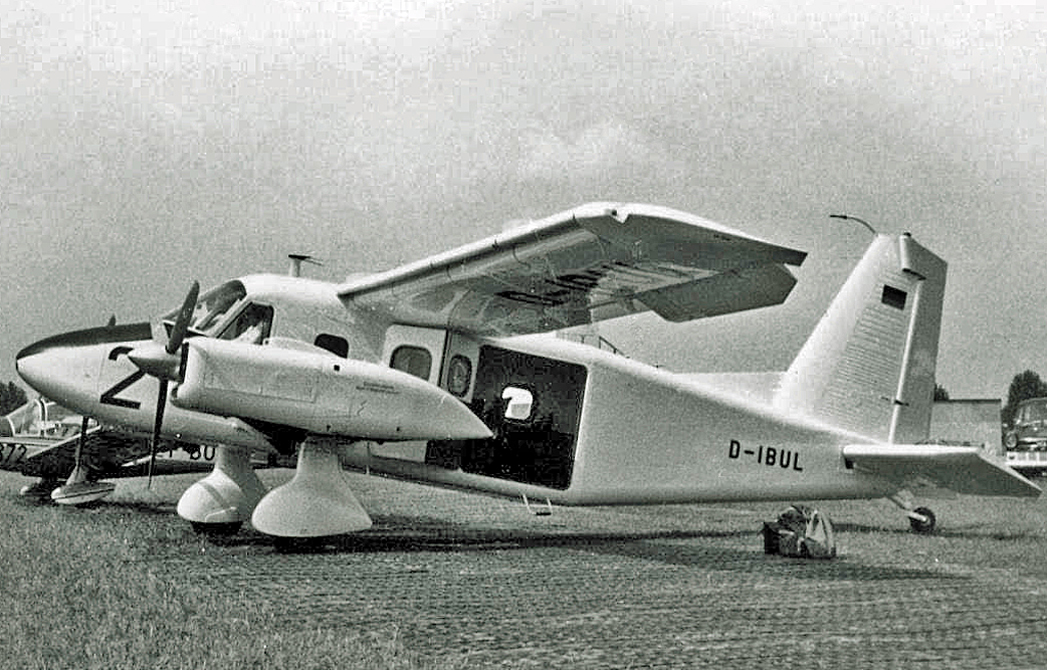 The second Dornier Do28D D-IBUL displayed at the June 1967 Paris Air Show